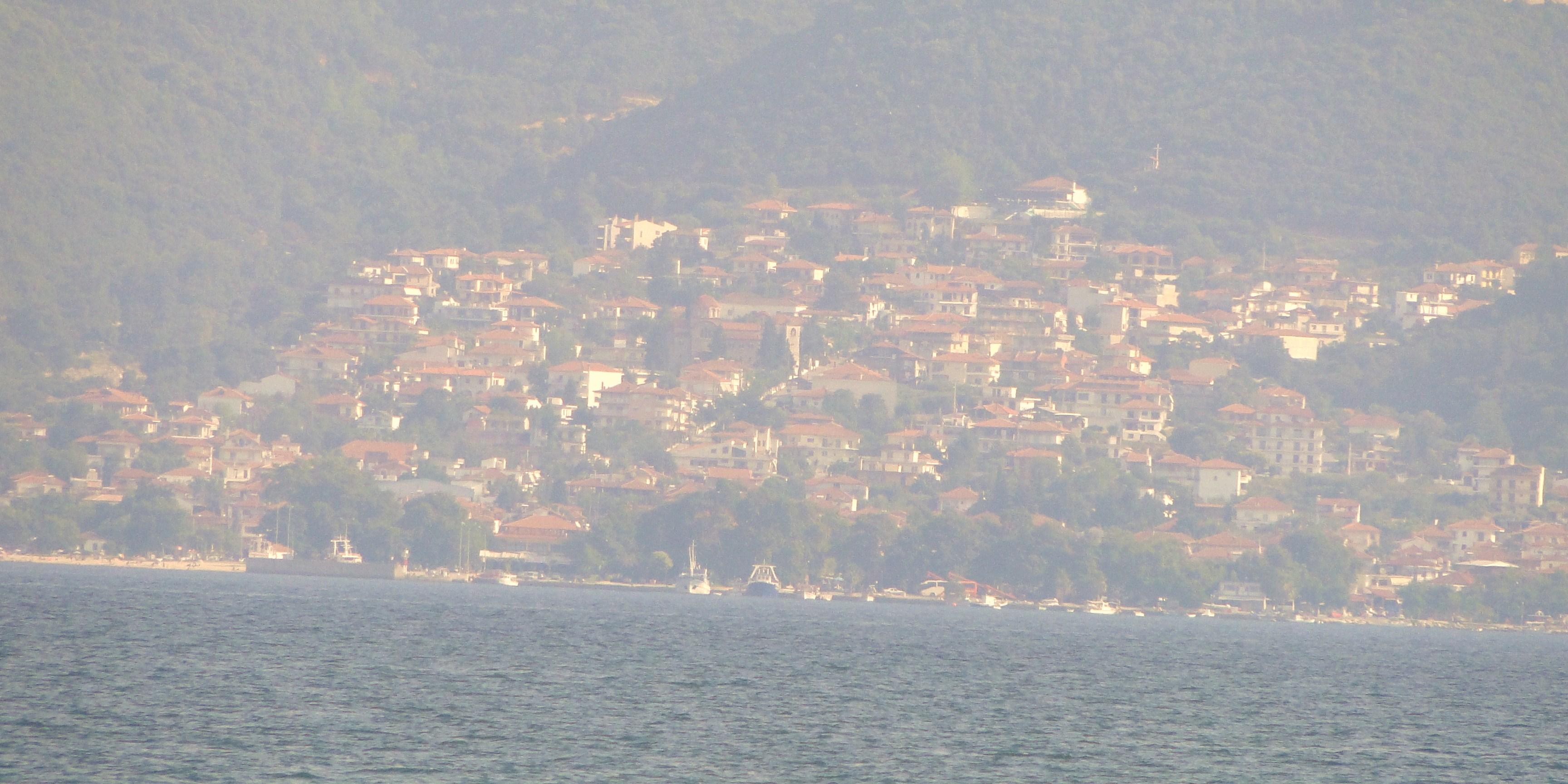 Full view of Stavros, Thessaloniki.